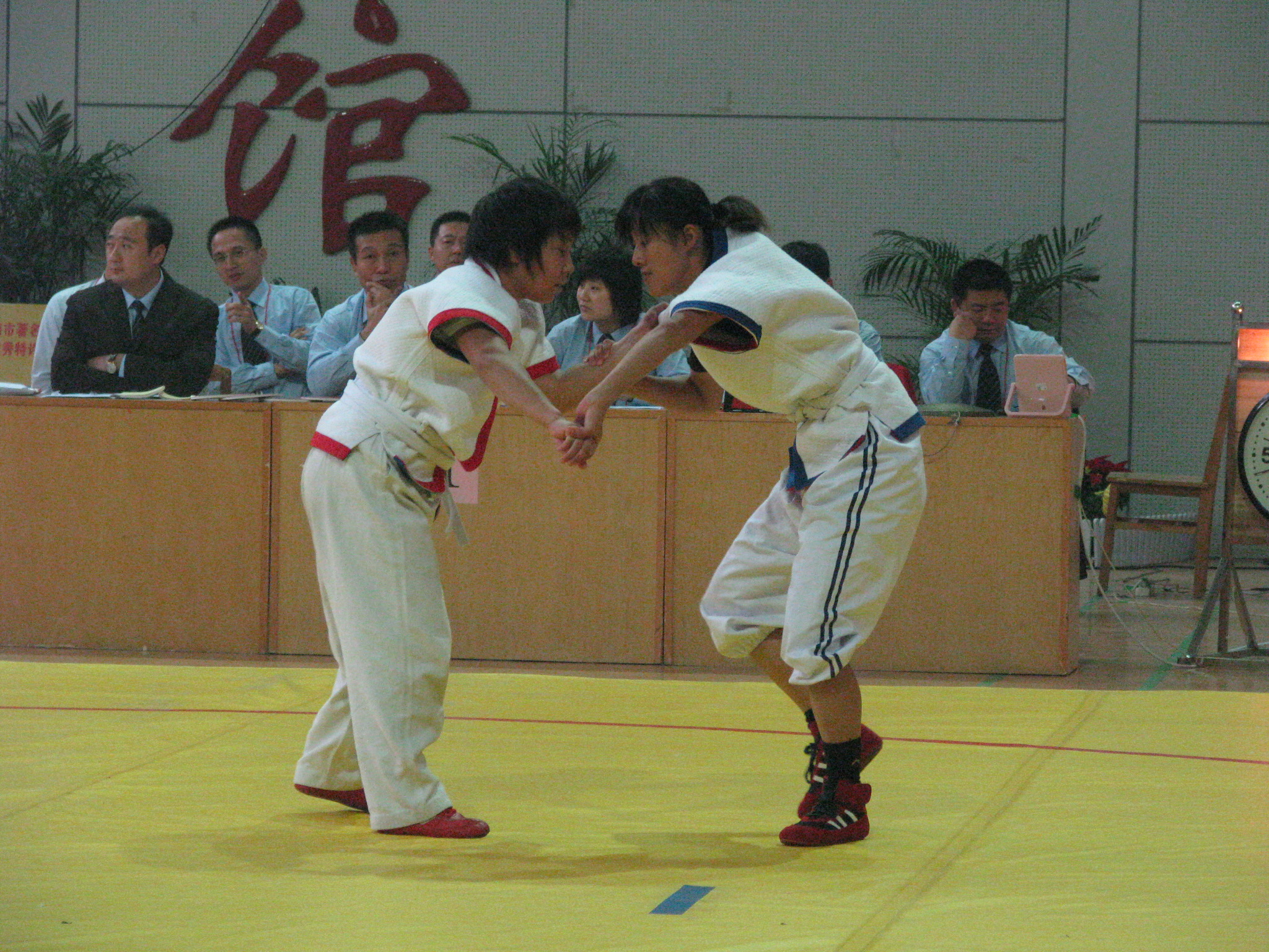 Chinese type wrestling, Shuaijiao, Taizhou Zhejiang 2007 11 24, 泰州 中国式摔跤